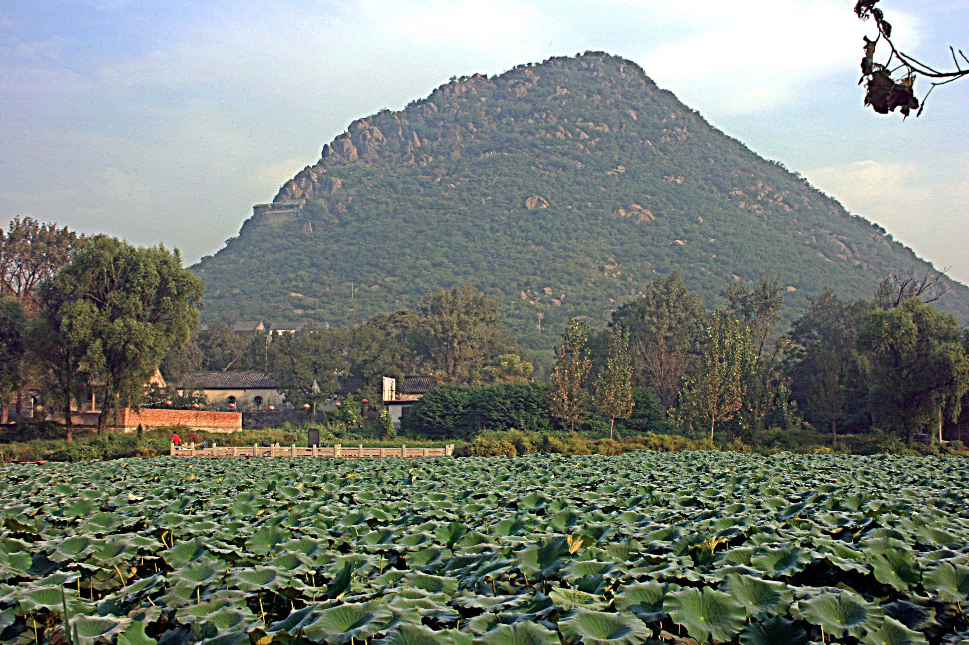 Photograph of Hua Hill in Jinan, Shandong, China. View from the South. The stone fence at the far end of the lotus pond encloses the Hua Spring. A text on the history of the spring is inscribed on the black stela. Behind the spring at the foot of the mountain buildings belonging to th Huayang Palace can be seen.